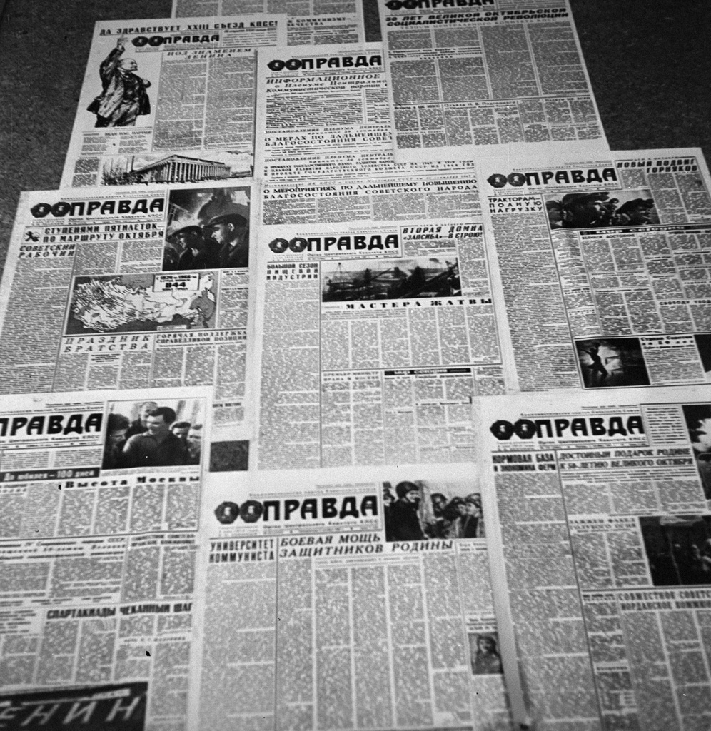 “Front pages of Pravda newspaper issues”. Front pages of Pravda newspaper issues. Pravda was the mouthpiece of the Soviet Communist Party's Central Committee.